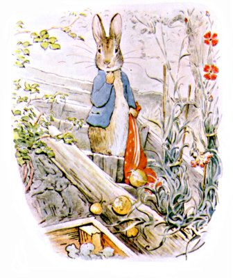 Illustration from children's book The Tale of Benjamin Bunny